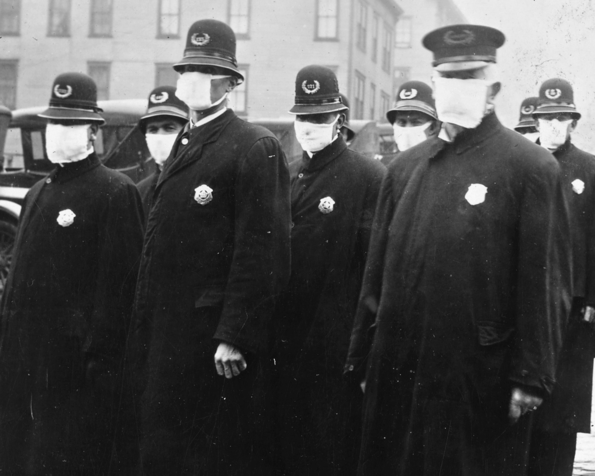 Policemen in Seattle wearing masks made by the Red Cross, during the influenza epidemic. December 1918.